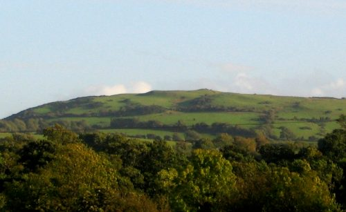 The Hill of Nicker, Pallasgreen Co. Limerick, the remains of an ancient volcano